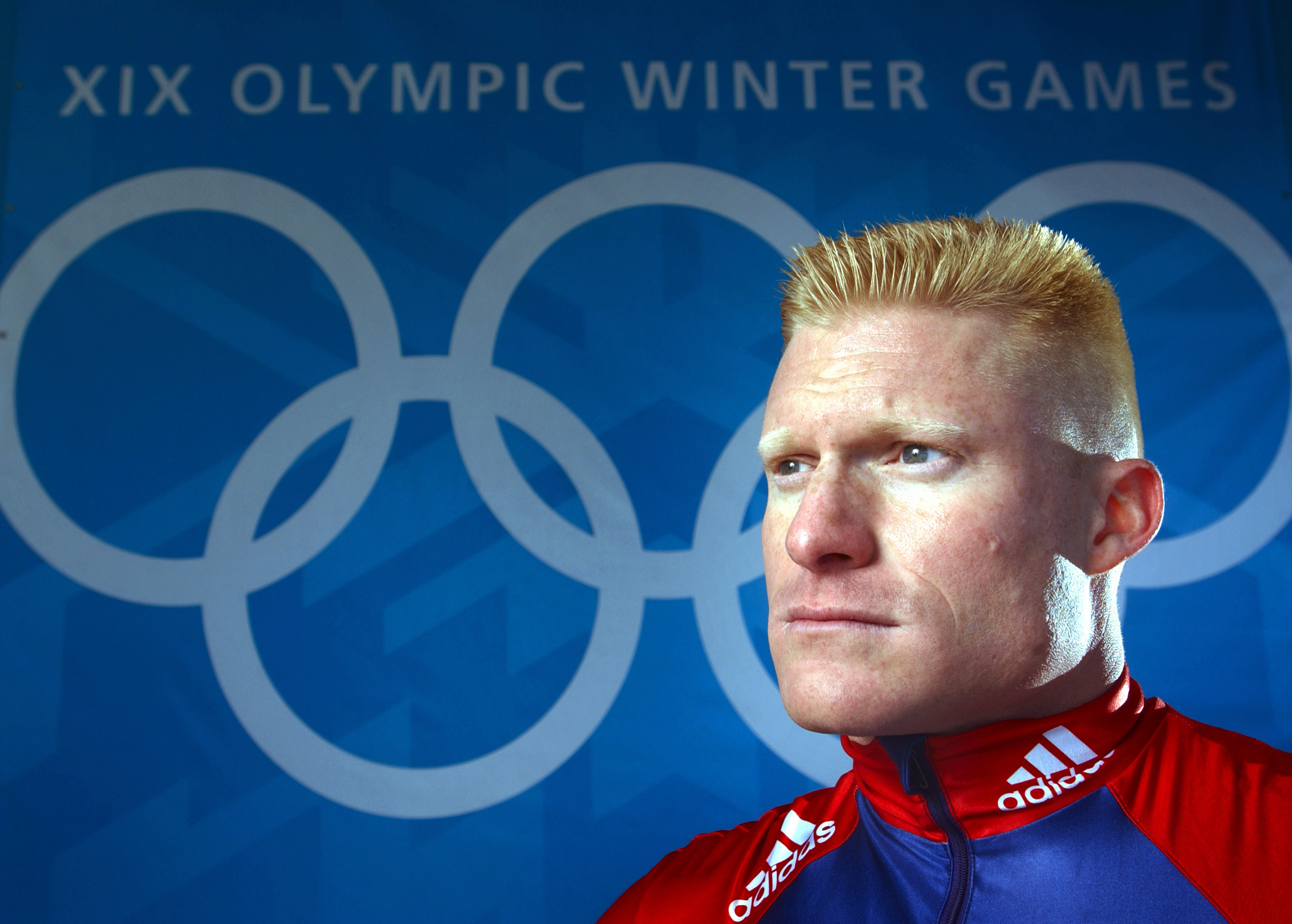 World Class Athlete Specialist (SPC) (E-4) Douglas Sharp, USA, part of a four-man bobsled team. SPC Sharp and his team members won the Bronze medal at the XIX OLYMPIC WINTER GAMES at the Utah Olympic Park in Park City, Utah, during the 2002 games.